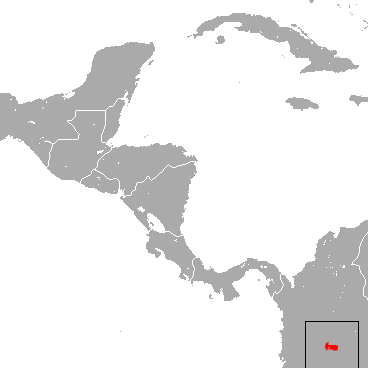 Eastern Cordillera Small-footed Shrew (Cryptotis brachyonyx) range